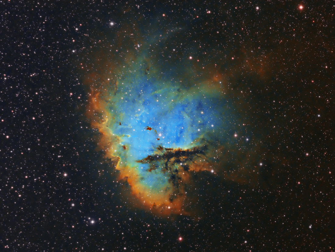 NGC281 - Pacman Nebula in Hubble Palette Narrowband from amateur equipment